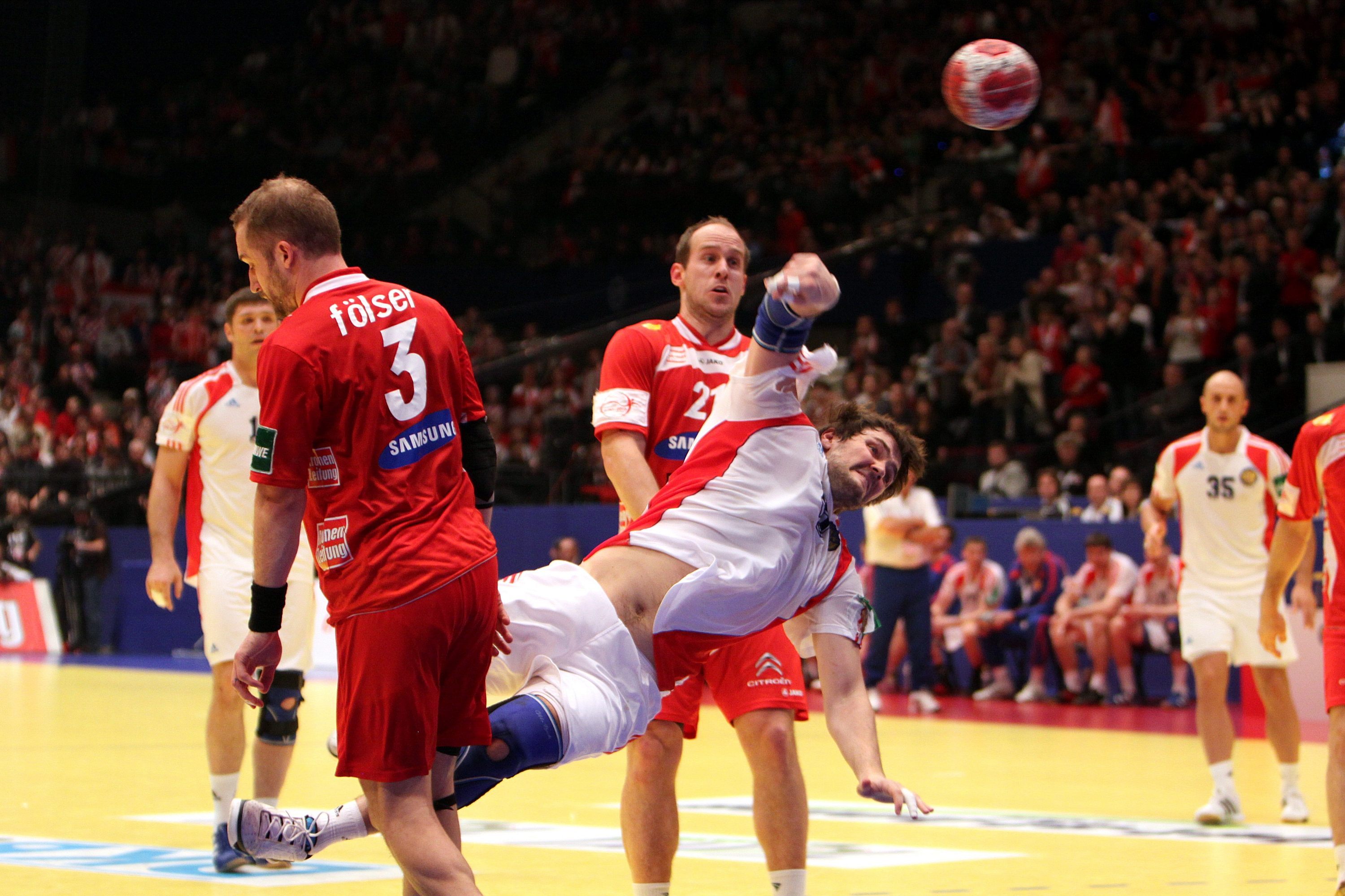 2010 European Men's Handball Championship Group I: Russia vs Austria 30:31 — Michail Tschipurin (Russia) with an attractive throw. Patrick Fölser (left) and Roland Schlinger (Austria) cannot intervene any longer.